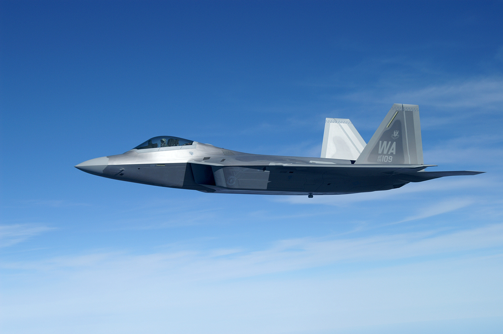 Maj. Micah Fesler, a 433rd Weapons Squadron pilot, flies an F-22A “Raptor” from the Lockheed-Martin factory in Georgia to Nellis AFB, Jan. 9. This Raptor is the first to be delivered to the 57th Wing from Lockheed-Martin, and is scheduled to be used by the U.S. Air Force Weapons School for training of PhD-level instructor pilots.